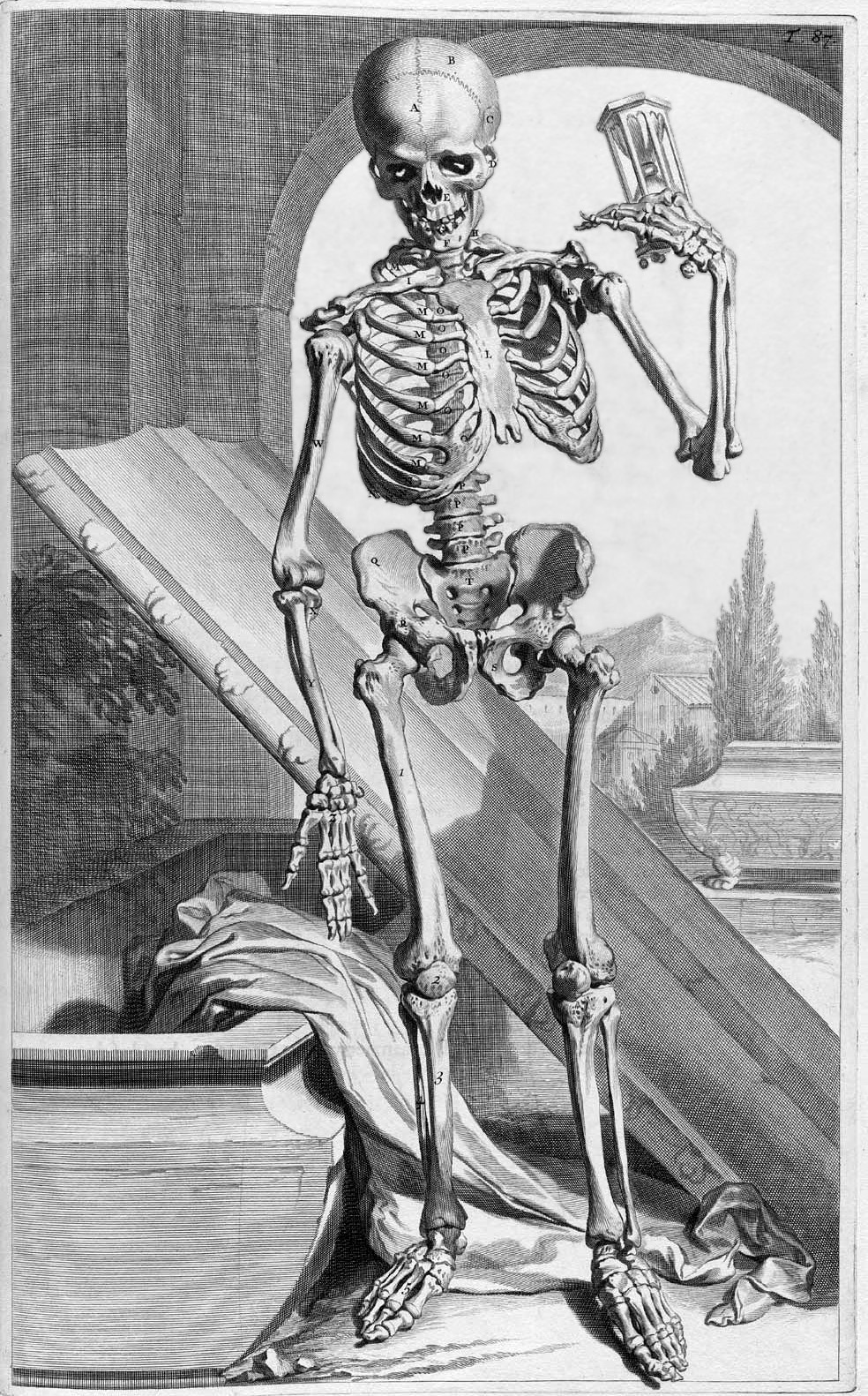 Ontleding des menschelyken lichaams... Amsterdam, 1690. Copperplate engraving with etching. National Library of Medicine. Portrait of Govard Bidloo (1649-1713) by the artist Gérard de Lairesse (1640-1711). Further information can be found on the category page.Uploader=Kuebi 13:47, 2 April 2007 (UTC)